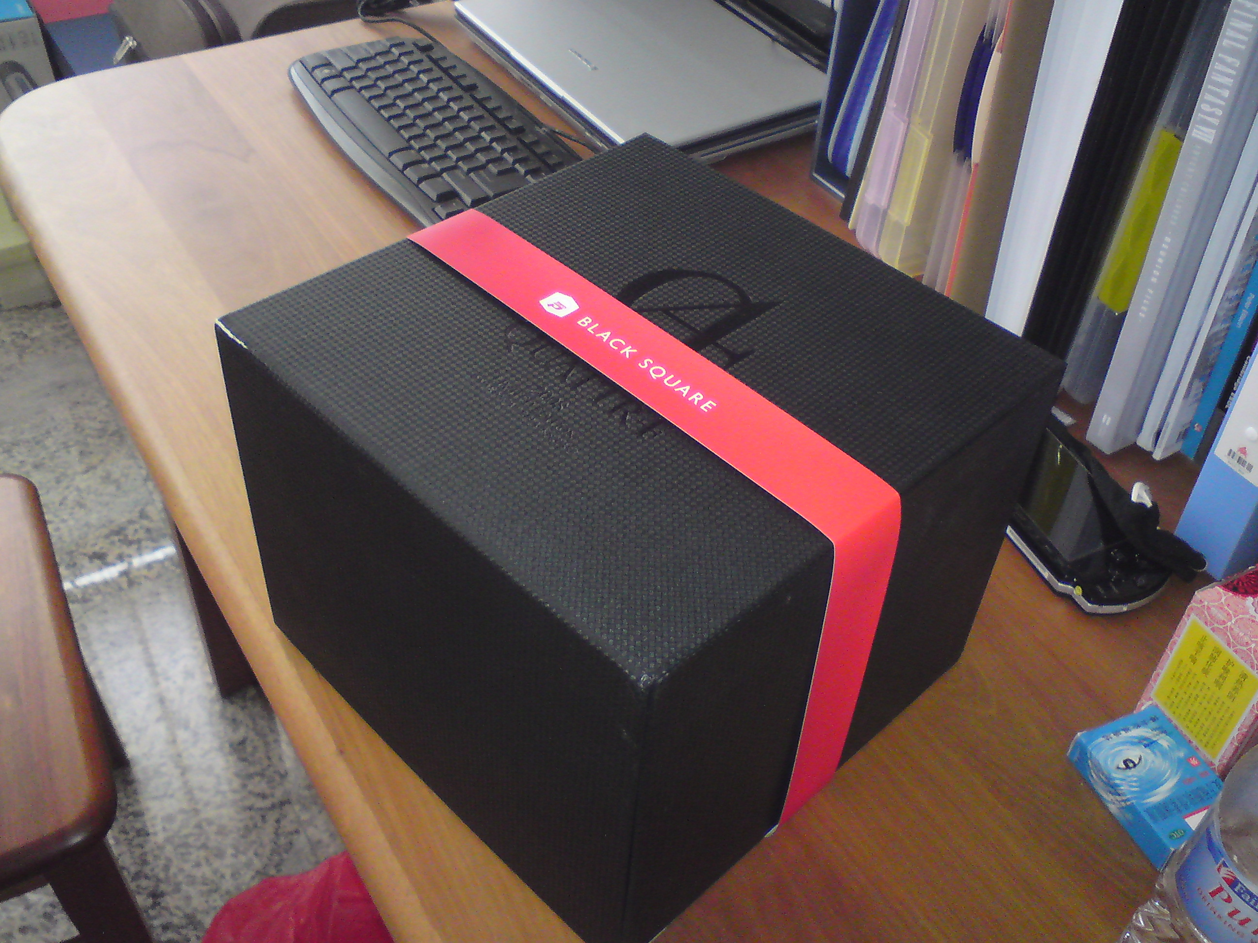 DJ Max Portable Black Square Limited Edition Pack (Quattr4) photo